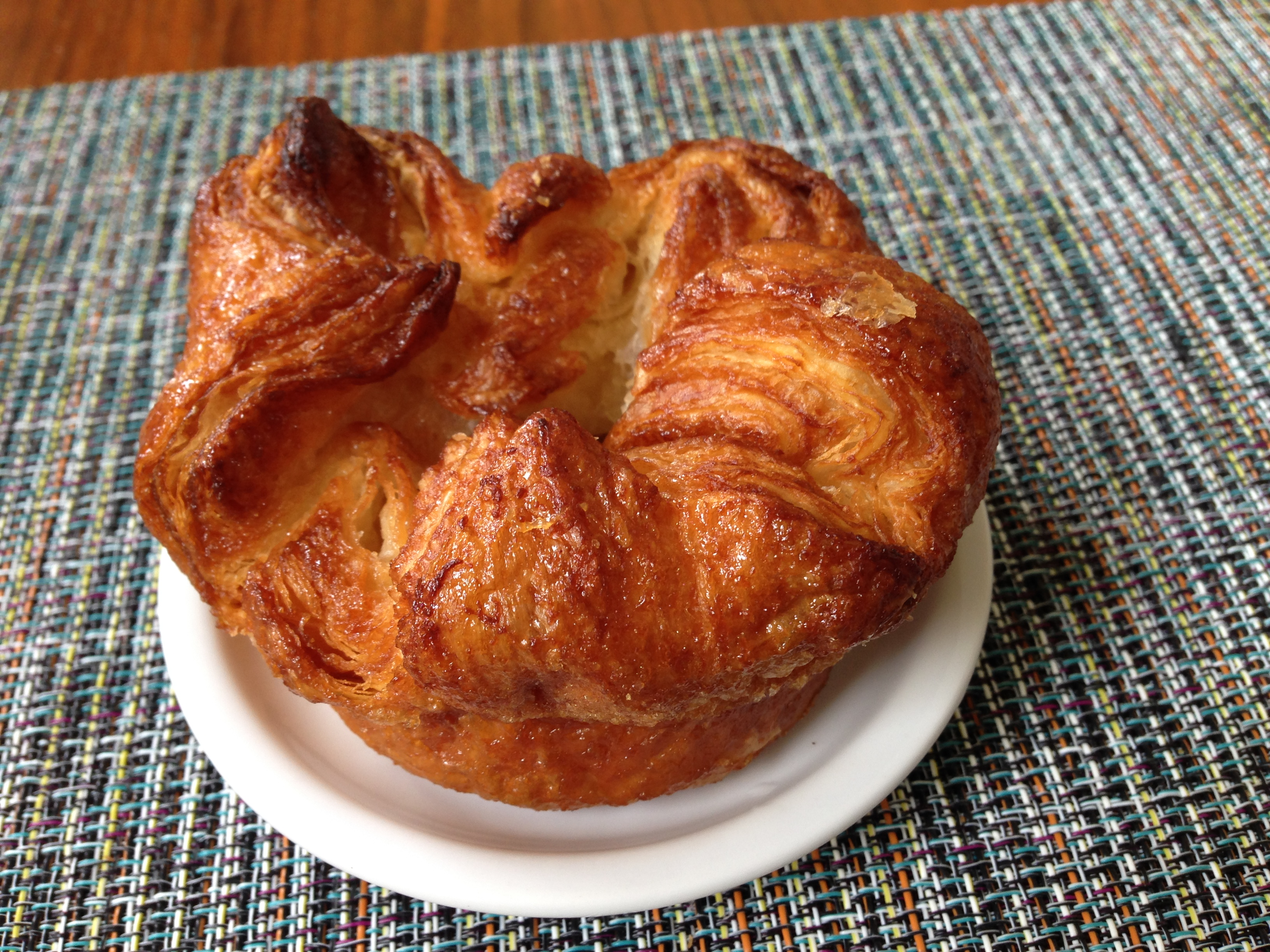 Kouign amann pastry from B. Patisserie in San Francisco